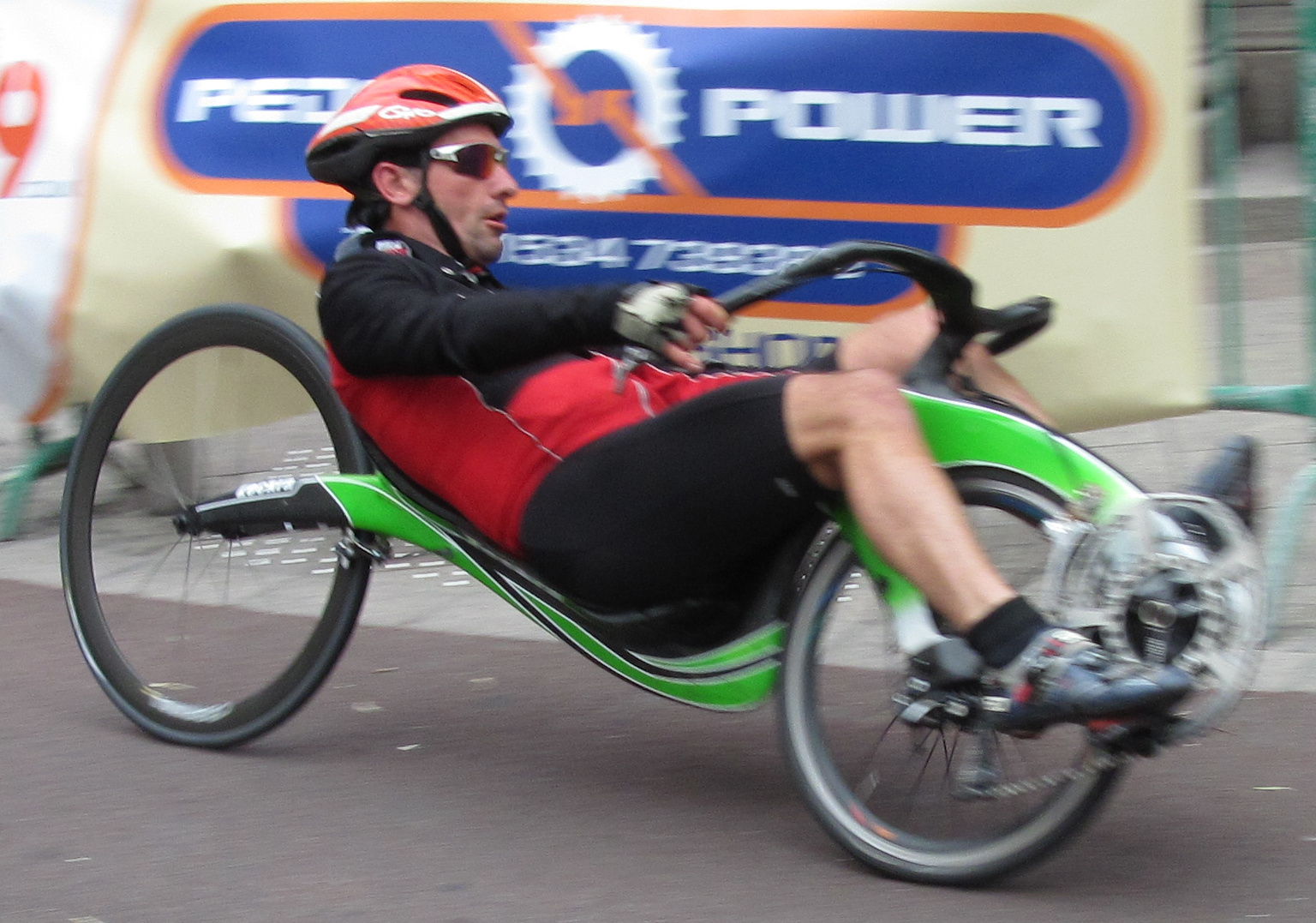 Jersey Town Criterium recumbent bicycle races, Saint Helier, Jersey - World Human Powered Vehicle Association 2010 World Championship